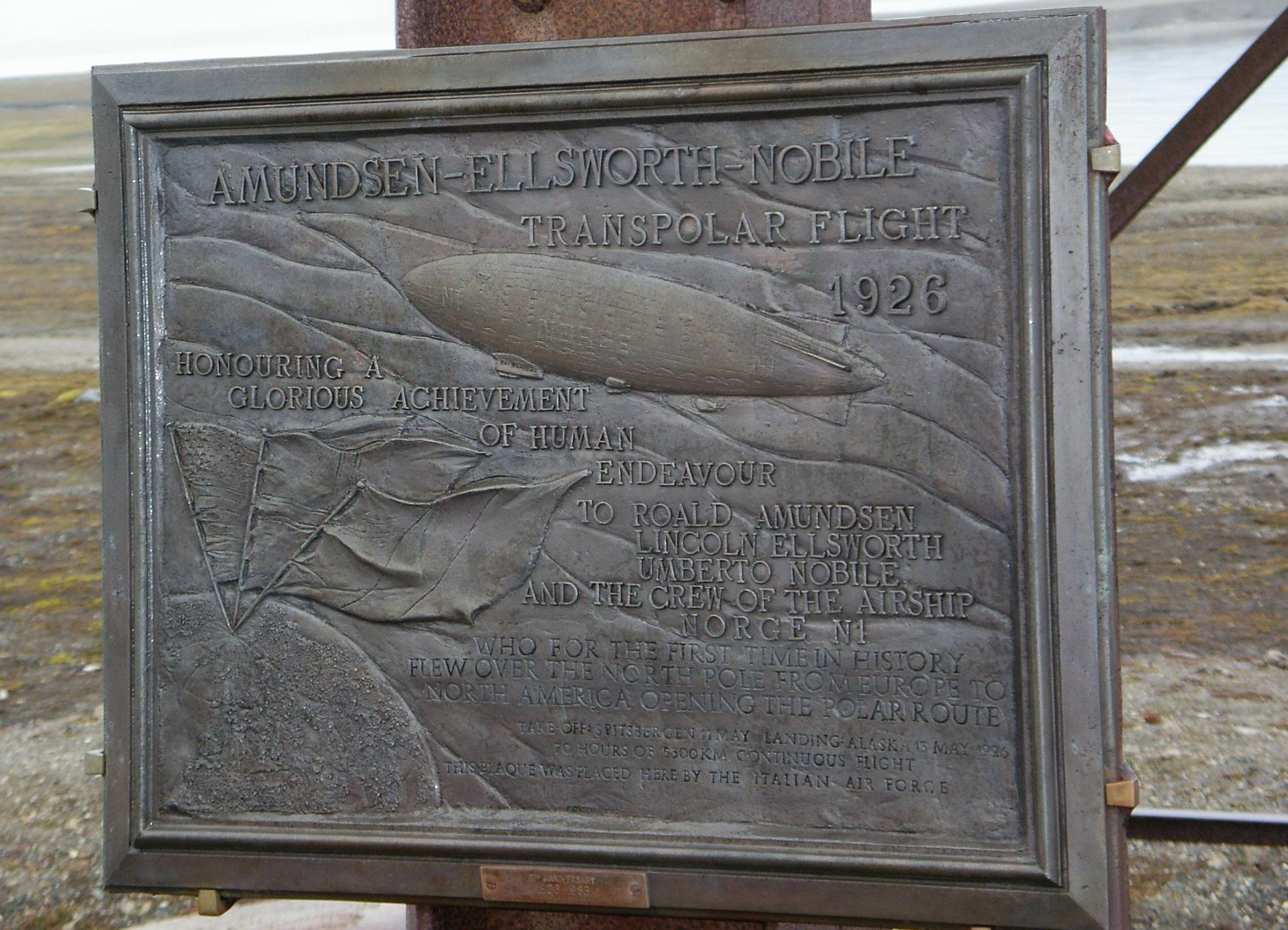 Remeberence plate in Ny-Alesund, Spistbergen, to honour Roald Amundsen's first North Pole Flight in 1926